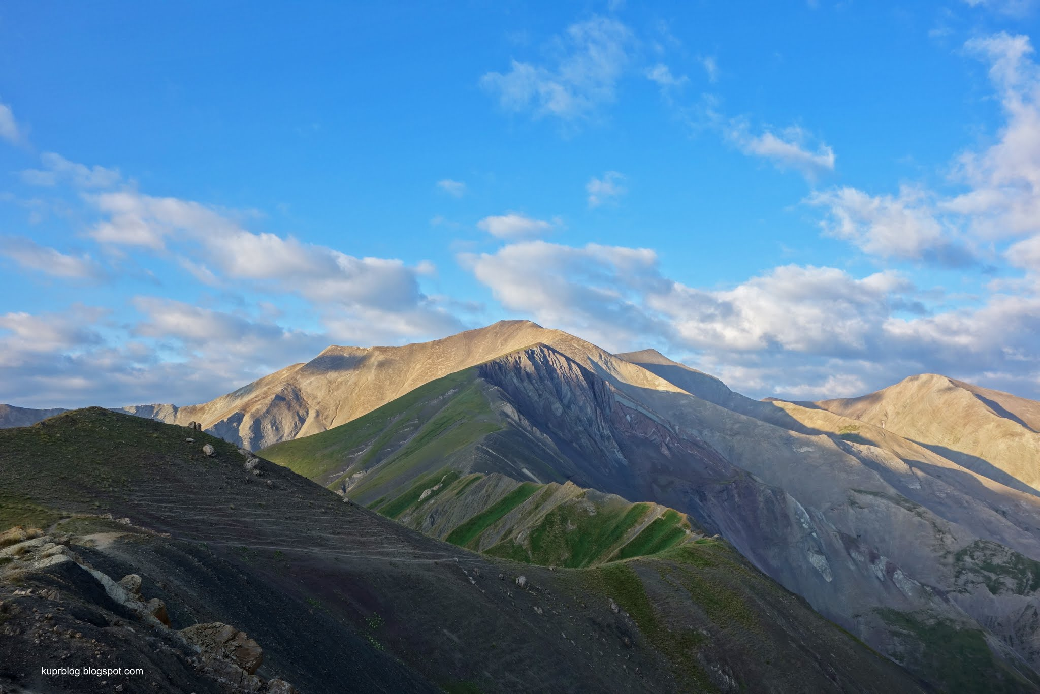 Babadag, view from North ridge. Azerbaijan